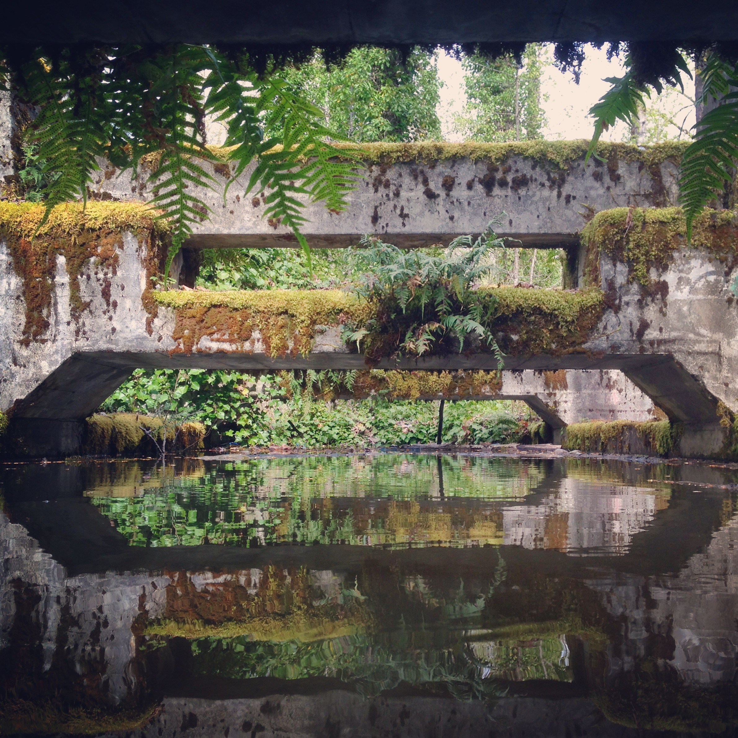 Ruins of coal mining facility in Wilkeson, WA